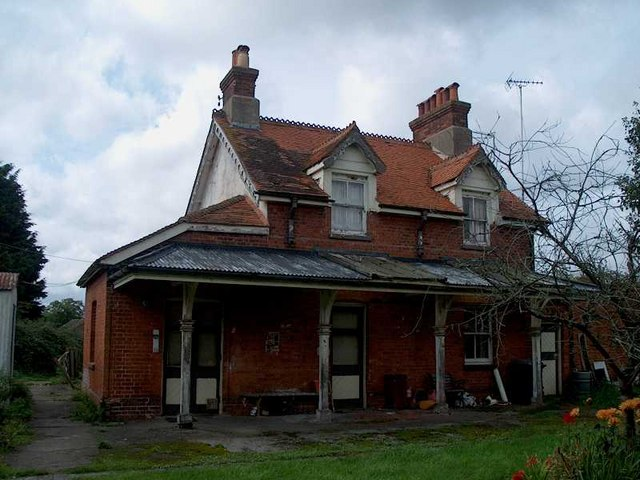 Compton railway station This is the platform side of Compton railway station. The building appears to be in very poor condition. There was a car parked out front today so it looks like it is occupied. A public footpath runs through the grounds allowing access to pedestrians. The rail line has been filled with earth but the platforms can still be seen.